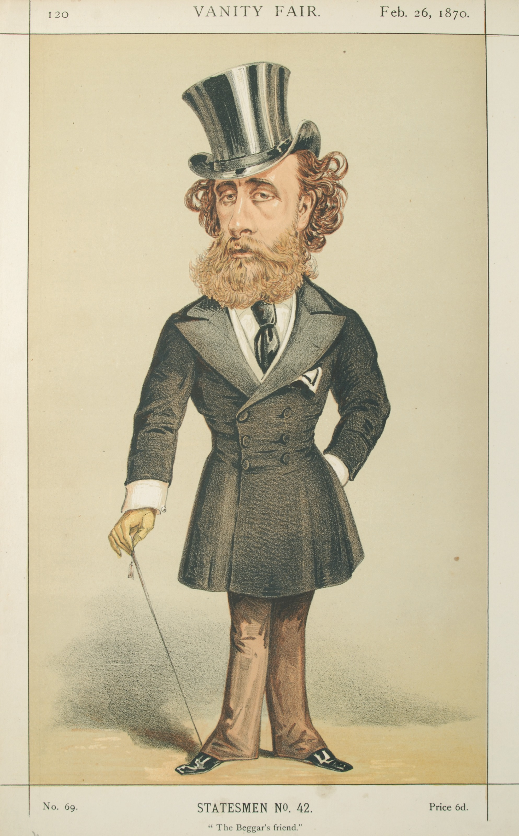 Statesmen No.42: Caricature of The Marquess Townshend. Caption reads: "The Beggar's Friend."